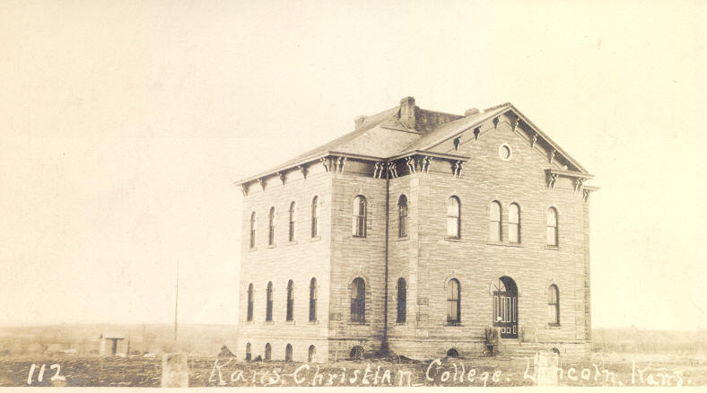 Main building of Kansas Christian College, Lincoln, Kansas. Building was torn down in 1922. Postcard found at